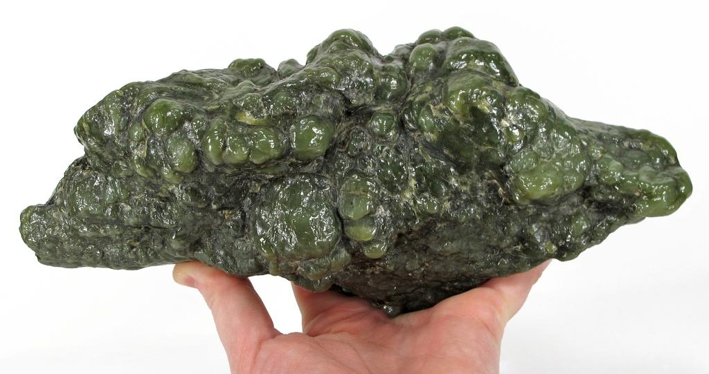 Nephrite (Ferro-aktinolite-Tremolite_Series); Size: 23 x 10 x 8 cm Locality: Paicines Clay deposits, Emmett, Diablo Range, San Benito County, California, USA A remarkable large specimen of nephrite jade. Though, most of what I have seen has been from "Jade Cove", this came from an old collection and had a taped label stating the locality given (San Benito County). It came from an old California collection that was picked up by dealer Don Olson recently. This large piece of solid nephrite is 3.7 pounds.